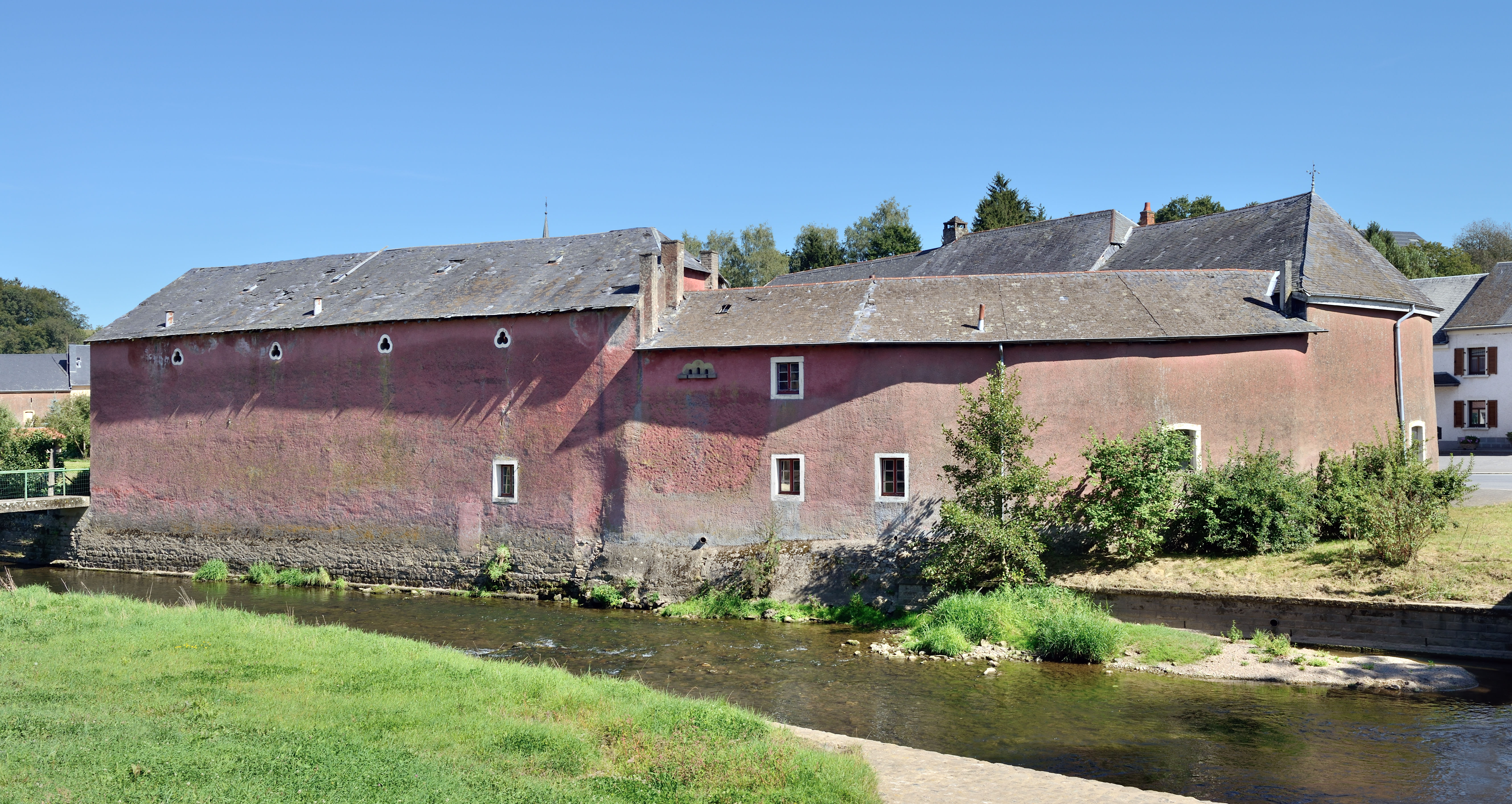 Luxembourg, Boevange-Attert: the river Attert and the back part of the birth house of Joseph Hackin (1886-1941), French archaeologist with Luxembourgian origins.